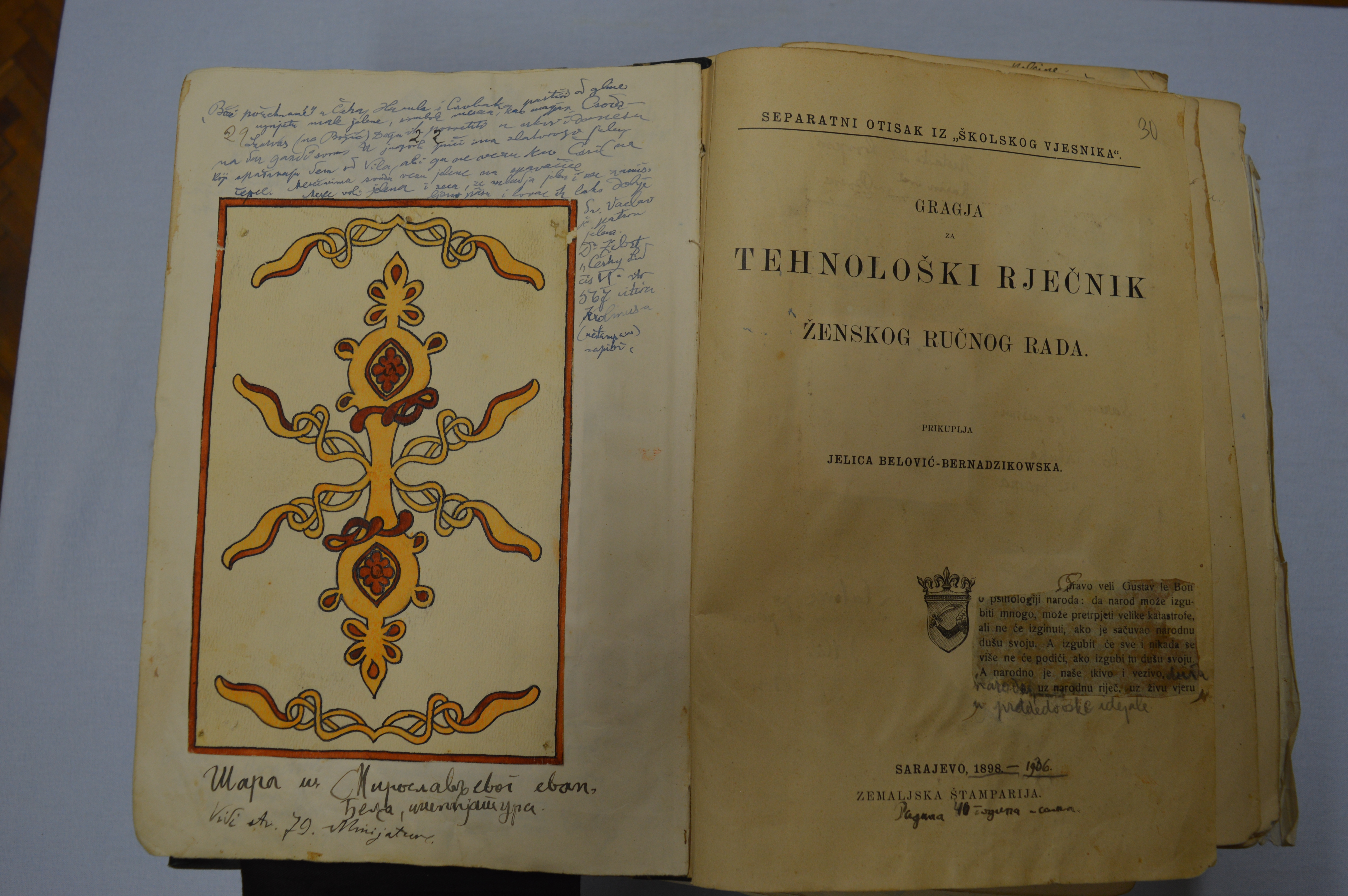 First two pages of a book "Građa za tehnološki riječnik ženskog ručnog rada" (1906) by Jelica Belović-Bernađikovska Srpski (latinica): Prve dve strane knjige "Građa za tehnološki riječnik ženskog ručnog rada" (1906) Jelice Belović-Bernađikovske